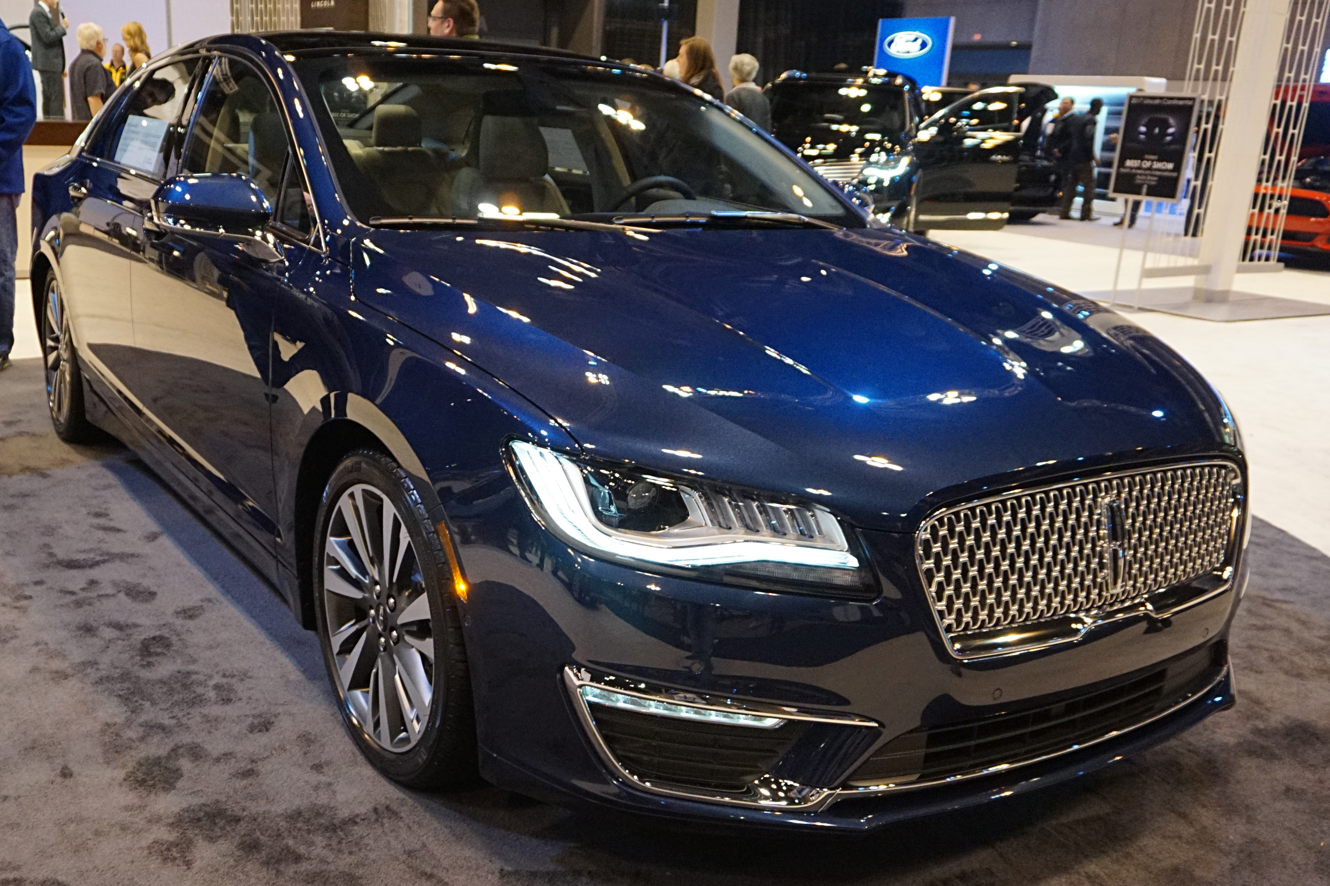 2017 Lincoln MKZ